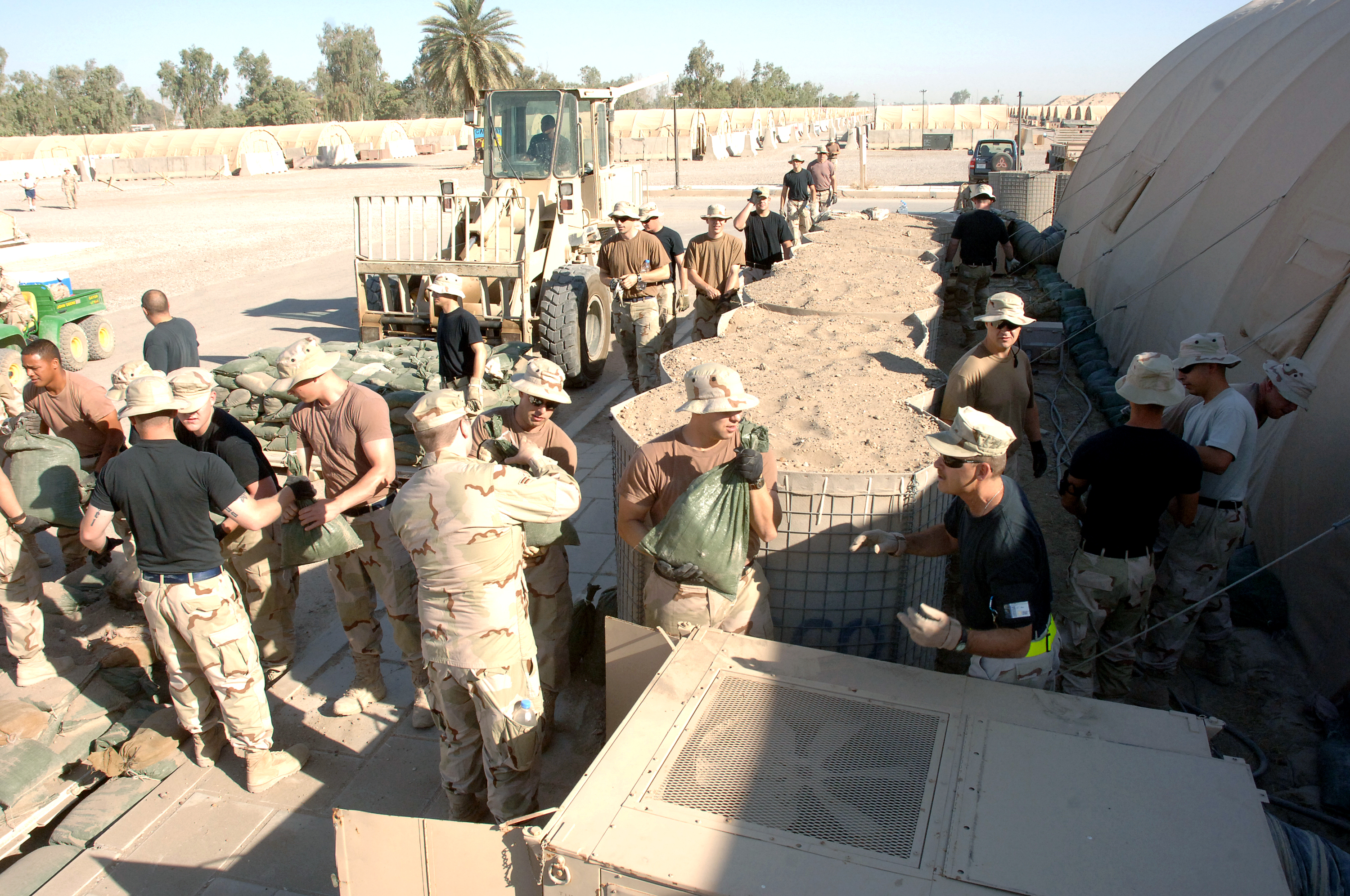 Fightin' the desert heat: More than 50 Airmen from the 447th Air Expeditionary Group at Sather Air Base, Iraq, teamed up on Wednesday, June 7, 2006, to sandbag their recreation center to keep the cool air inside from escaping. Sather AB is located at Baghdad International Airport.